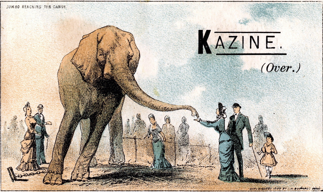 Advertising card for Kazine featuring Jumbo reaching for candy